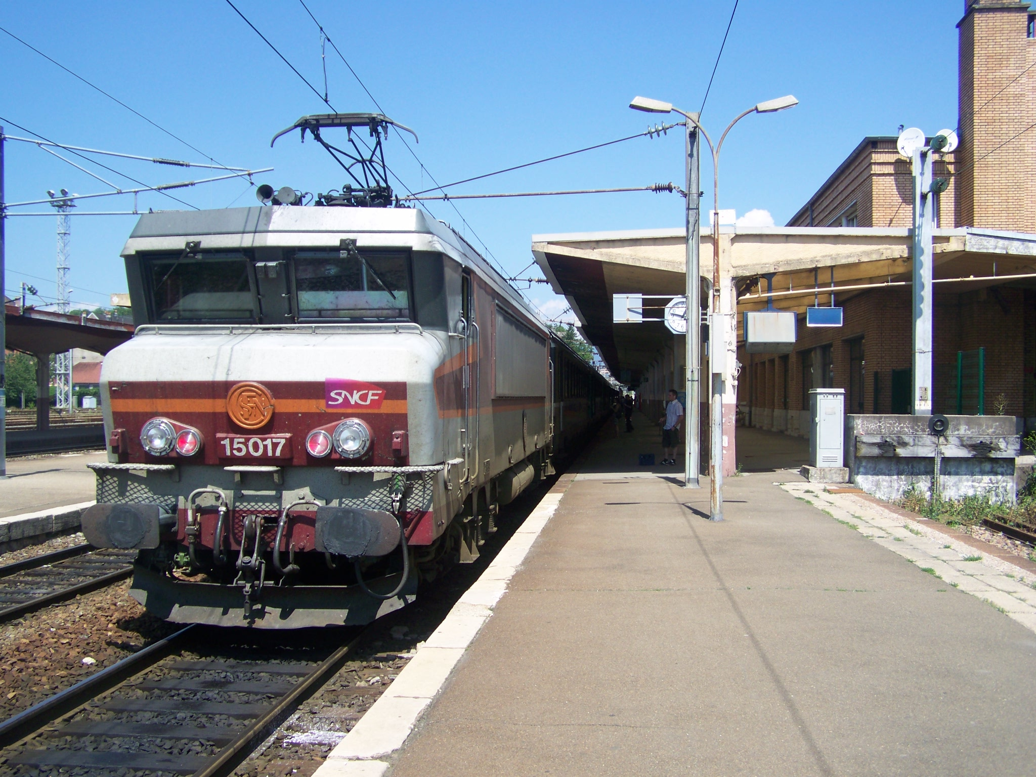 French main lines train stopping at Belfort station, in Territoire de Belfort department.